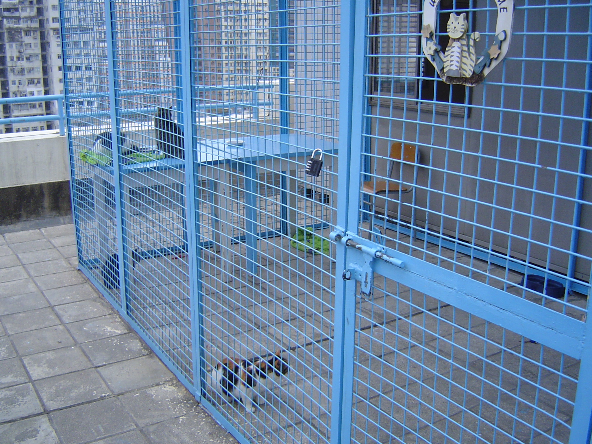 The cathouse of Wah Yan College Cats, on the roof of Gordon Wu Hall, Wah Yan College, Hong Kong.